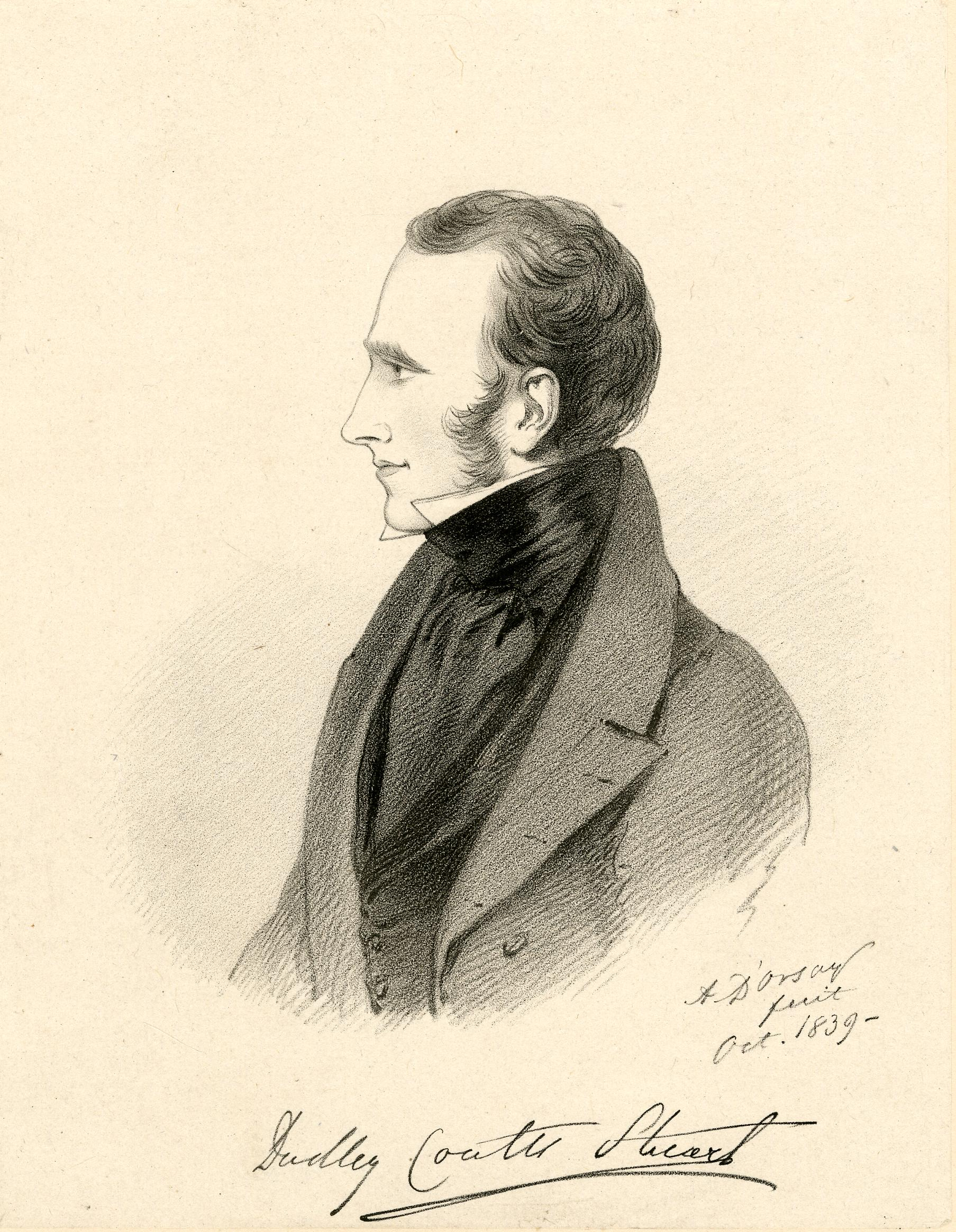 Portrait of Lord Dudley Coutts Stuart; half-length, standing to left, with head in profile, wearing open double-breasted coat, waistcoat fastened with two buttons, shirt with standing collar, and dark neckerchief; after d'Orsay. 1839 Lithograph on chine collé